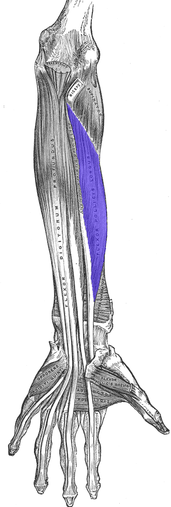 Image of the Flexor Pollcis Longus muscle